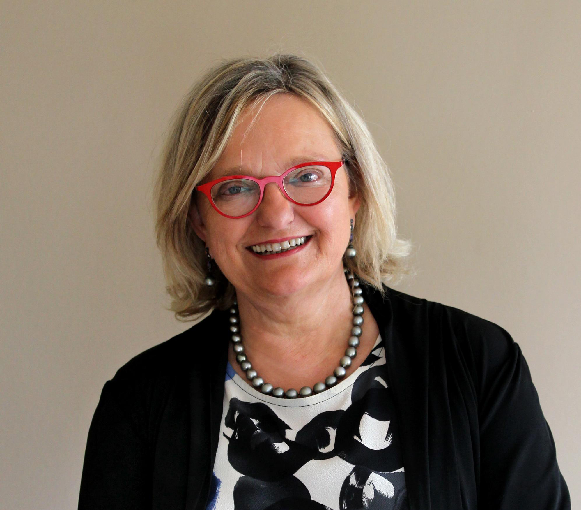 INGELMUNSTER / KARLIJN DEMASURE